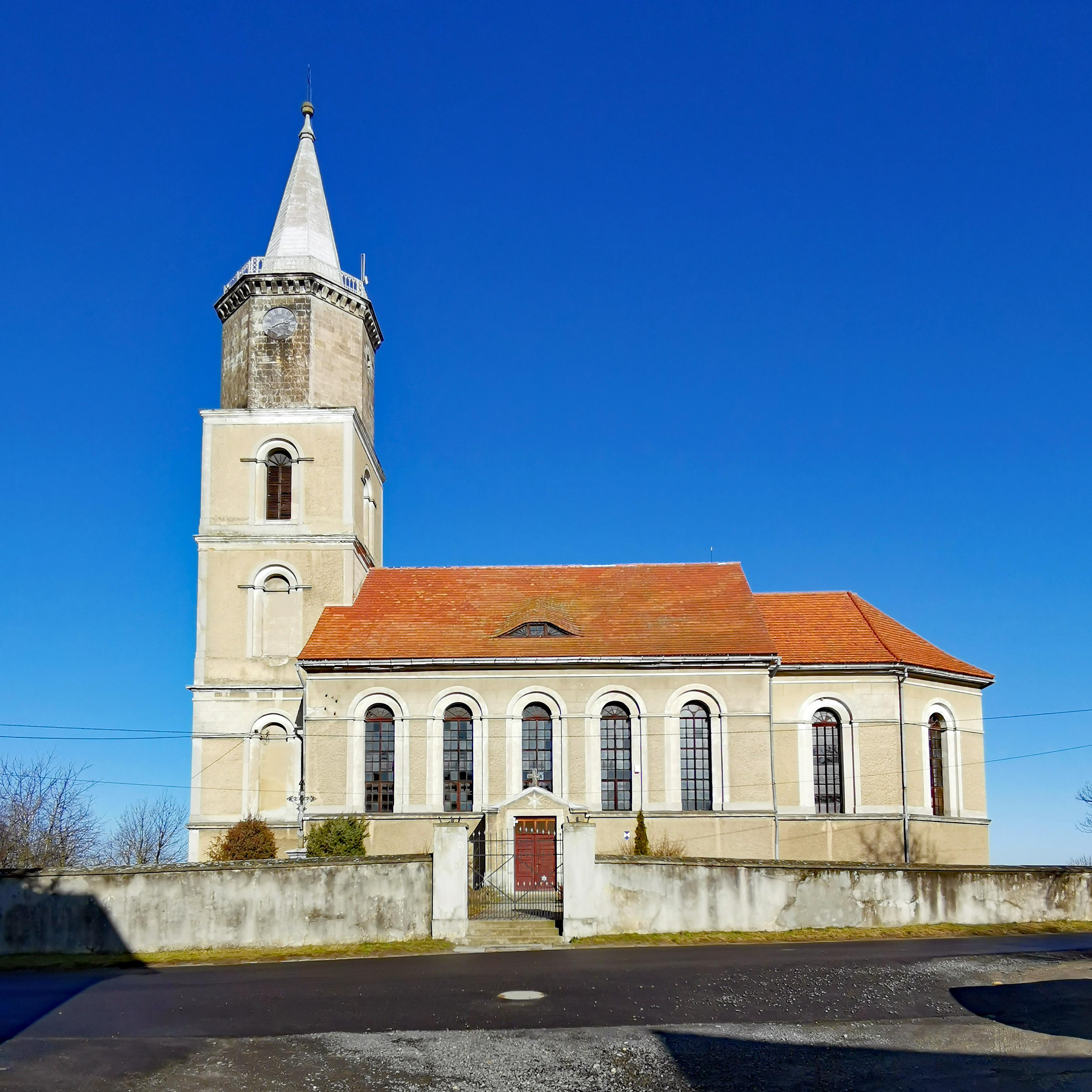 Church in Godzieszów, Poland